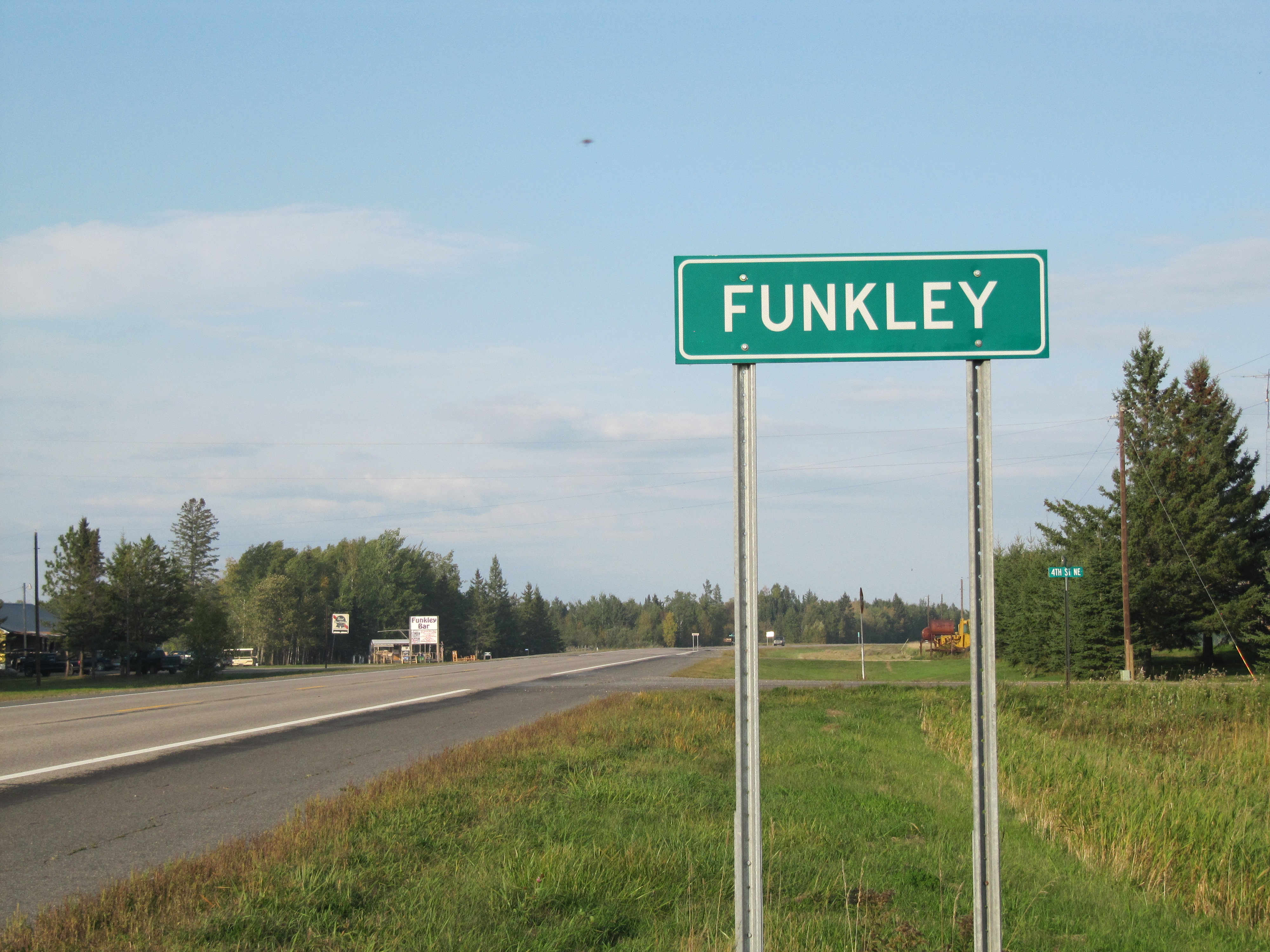 Funkley, MN road sign with Funkley Bar in the background. County Road 71.